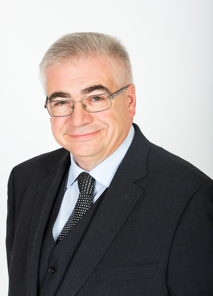 Karl Jurka, Austrian political consultant, 2016 Photographer Gerda Ringwald © // 2016